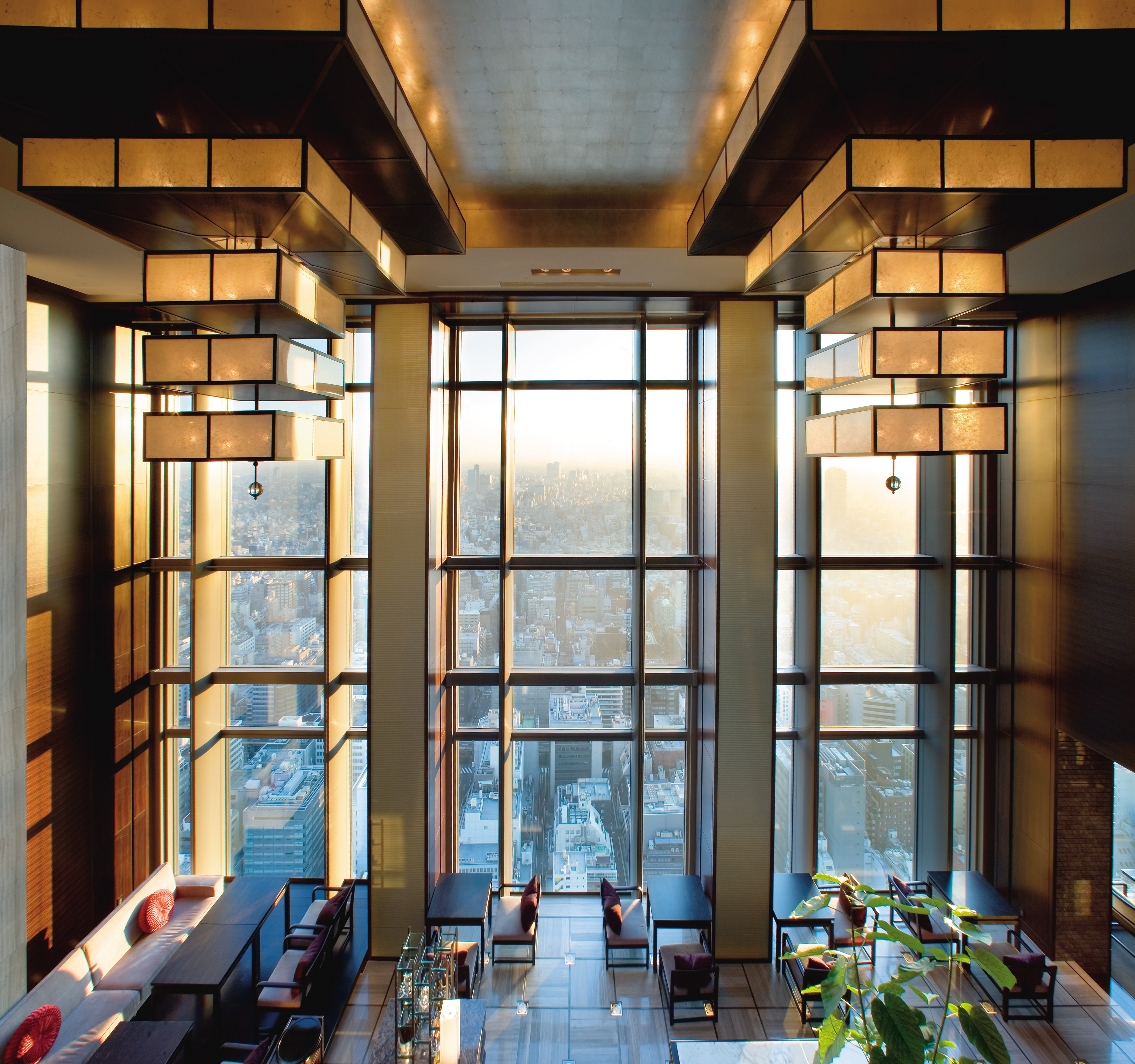 Lobby of Mandarin Oriental, Tokyo with view of the city